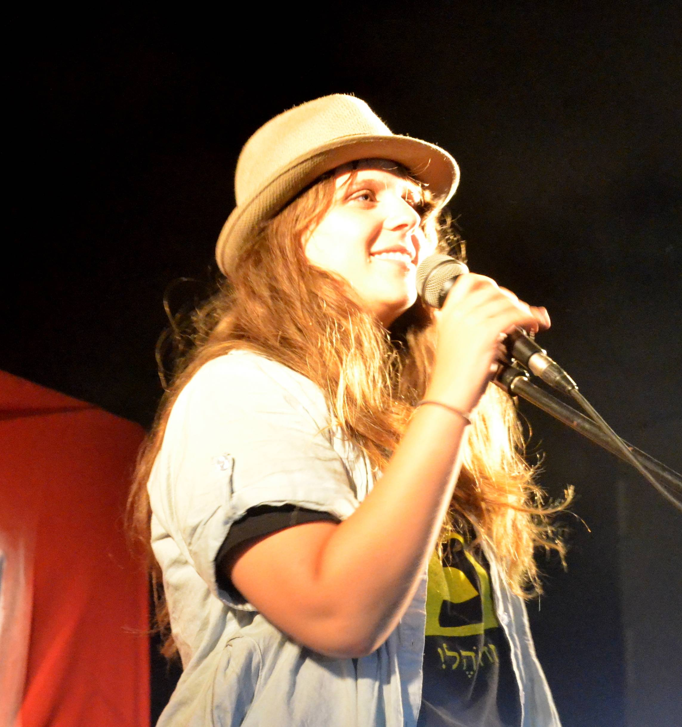 Daphne Leef speaking to a crowd of 20,000 protesters in Tel Aviv. 23/07/2011